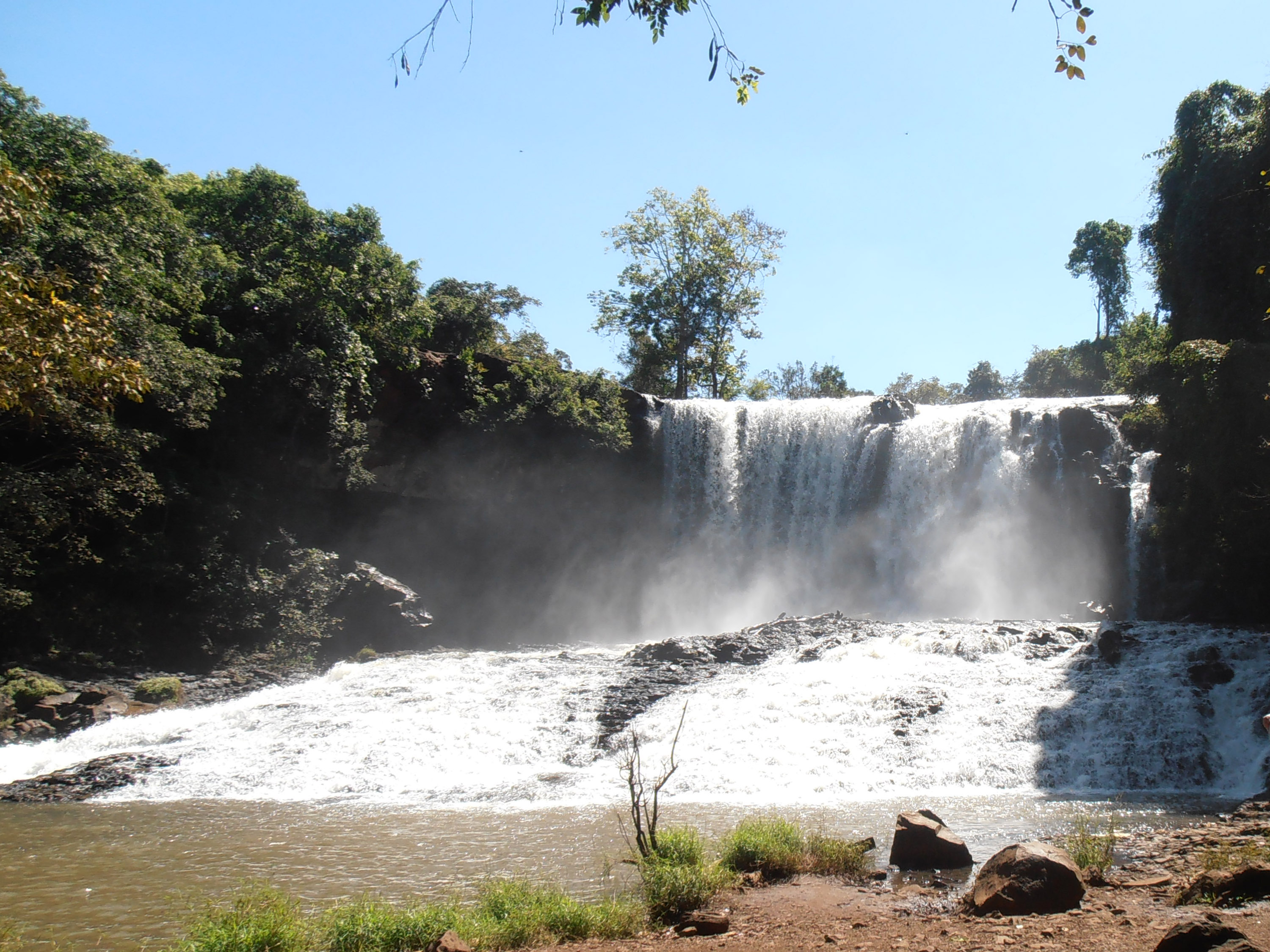 image of Chrey Thom waterfall in Mondulkiri province, Cambodia